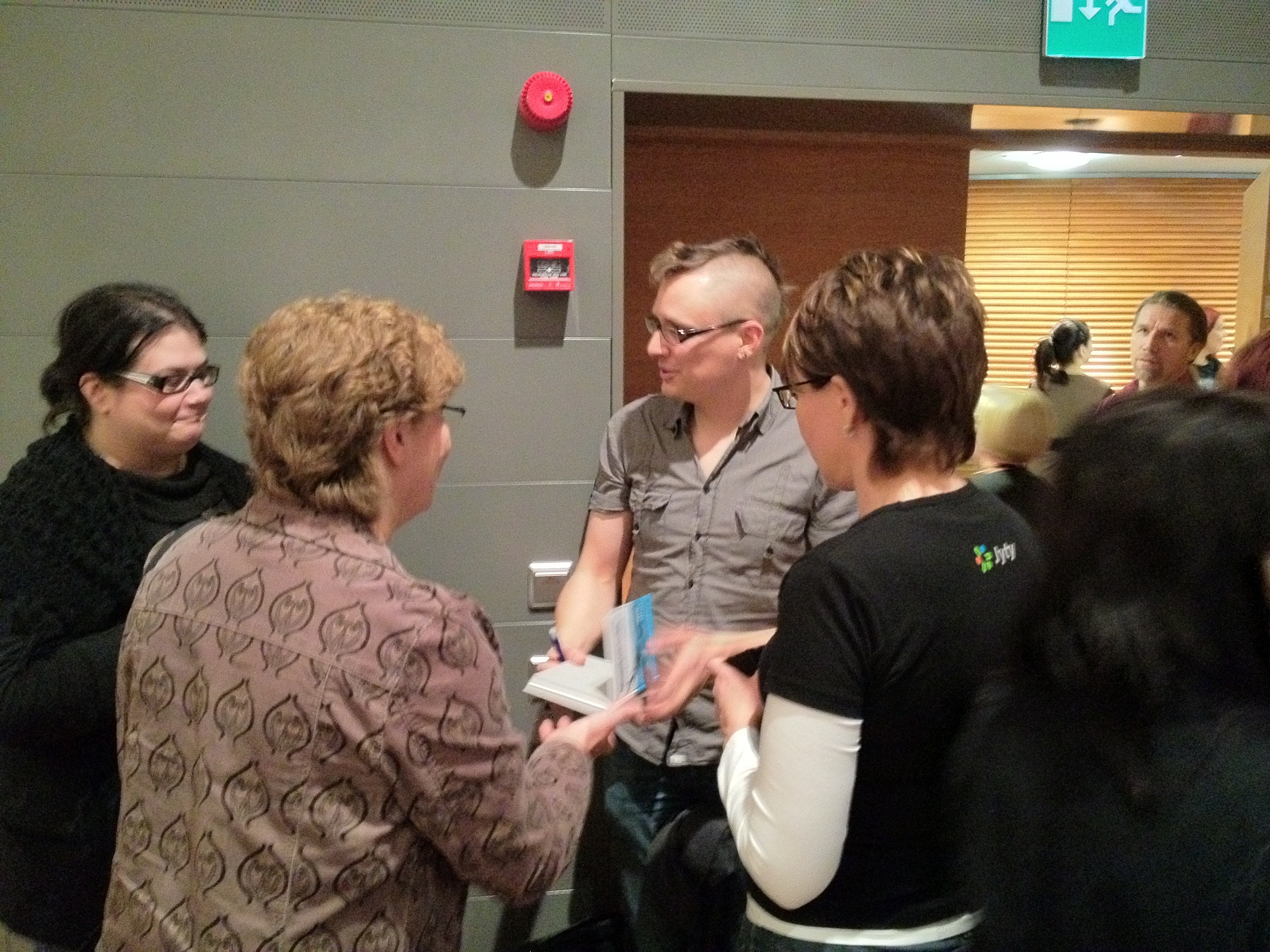 autographing at the librarians congress 2011